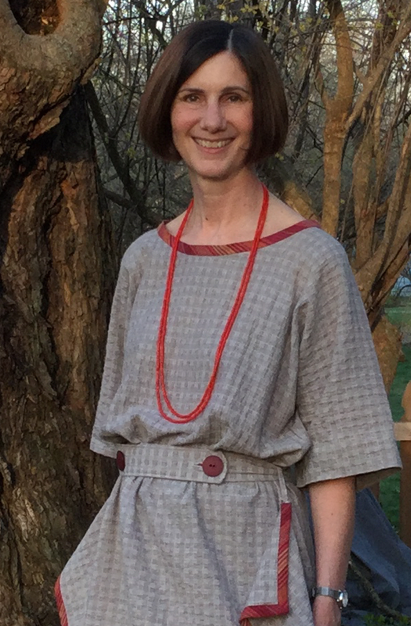 Sarah Iles Johnston, 2016